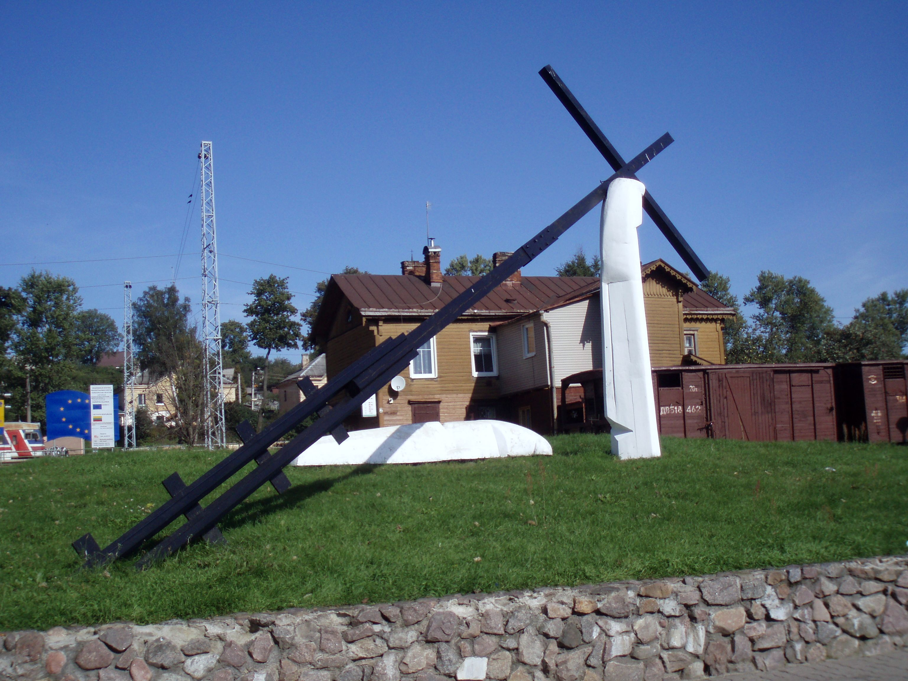 =Vilnius, Naujoji Vilnia, paminklas tremtiniams, prie traukinių stoties, paskutinė stotelė Lietuvoje. Matomi vagonai, kuriais SSR vežė žmonės į Sibirą. (Vilnius, Naujoji Vilnia, memorial for exiles near trainstation, USSR to deported thousands of people to Siberia, last station in Lithuania. Can be seen vagons used to trasport people.)